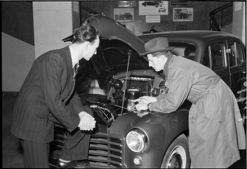 Car demonstration KB id: turck_61217 Photo: Sven Türck (1897-1954) Department of Maps, Prints and Photographs, Royal Danish Library.